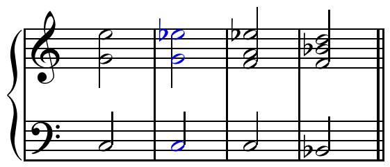 Modulation with subsidiary chord (in blue). Created by Hyacinth (talk) 02:10, 15 November 2011 (UTC) using Sibelius 5.